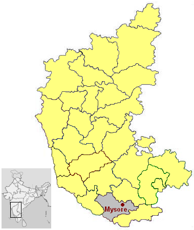 Location of Mysore city and district within Karnataka state (India) own image